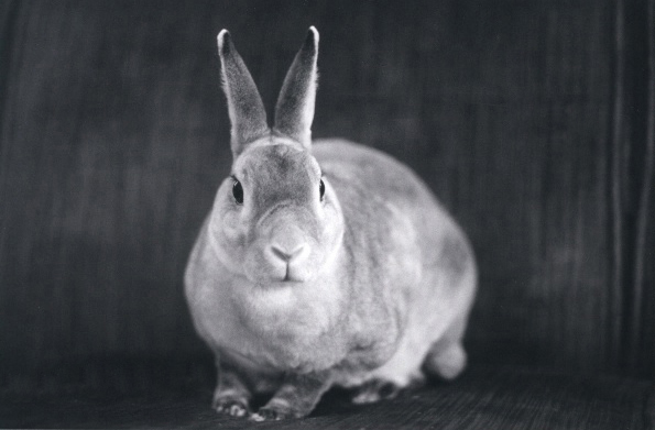 Opus, a silver mini-rex rabbit. Photograph taken by David Goodberg.